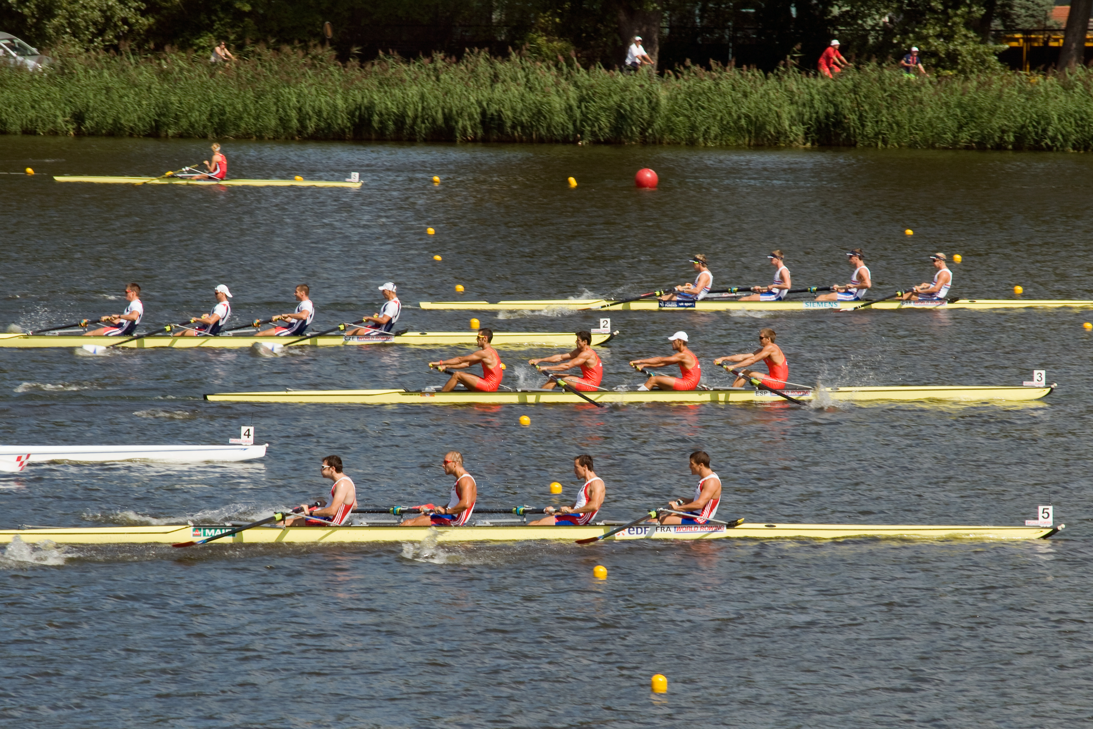 2009 Rowing World Championships: Heat 2 of the elimination round. France (lane 5), Croatia (lane 4 - obscured), Spain (lane 3), Czech Republic (lane 2), and Great Britain (lane 1).